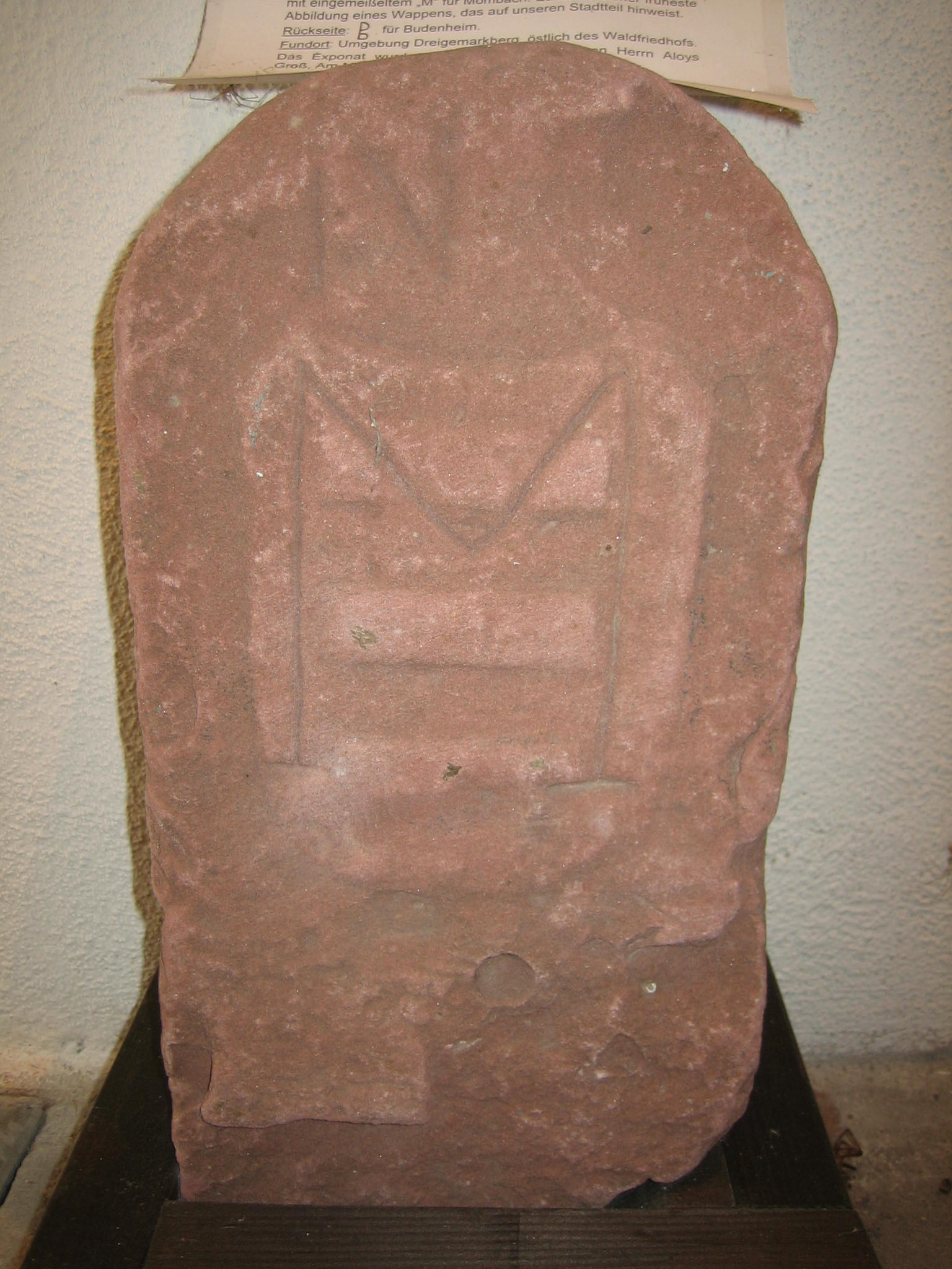 Boundary marker of the cathedrals collegiate, Mainz, showing the arms of the cathedrals chapter and M for Mombach on the frontside, as well as B for Budenheim on the rear.